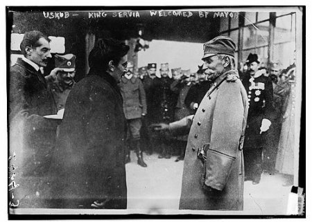 Serbian king Petar I in Skopie with the mayor of city